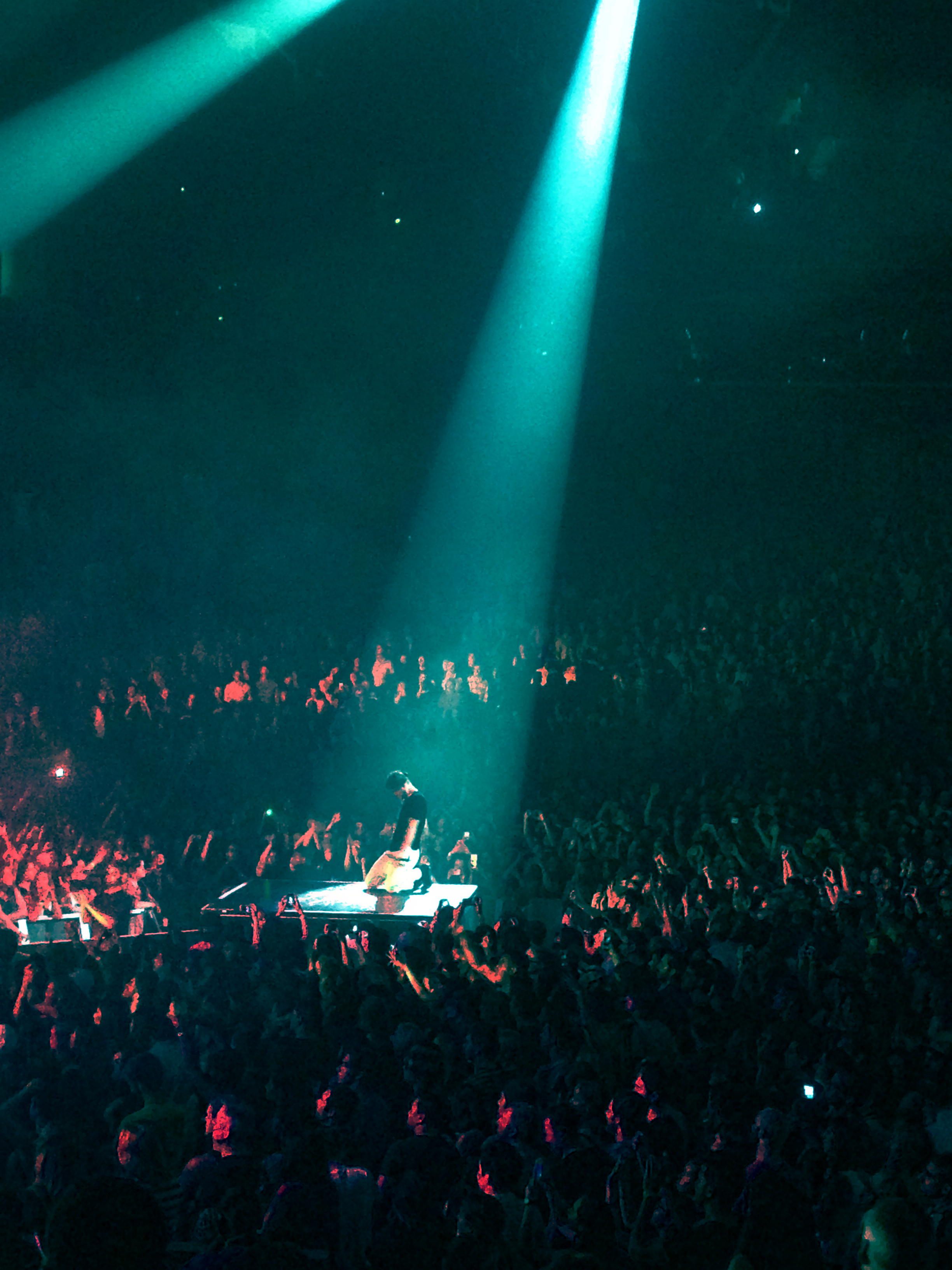 Imagine Dragons at Barclays Center, Brooklyn New York